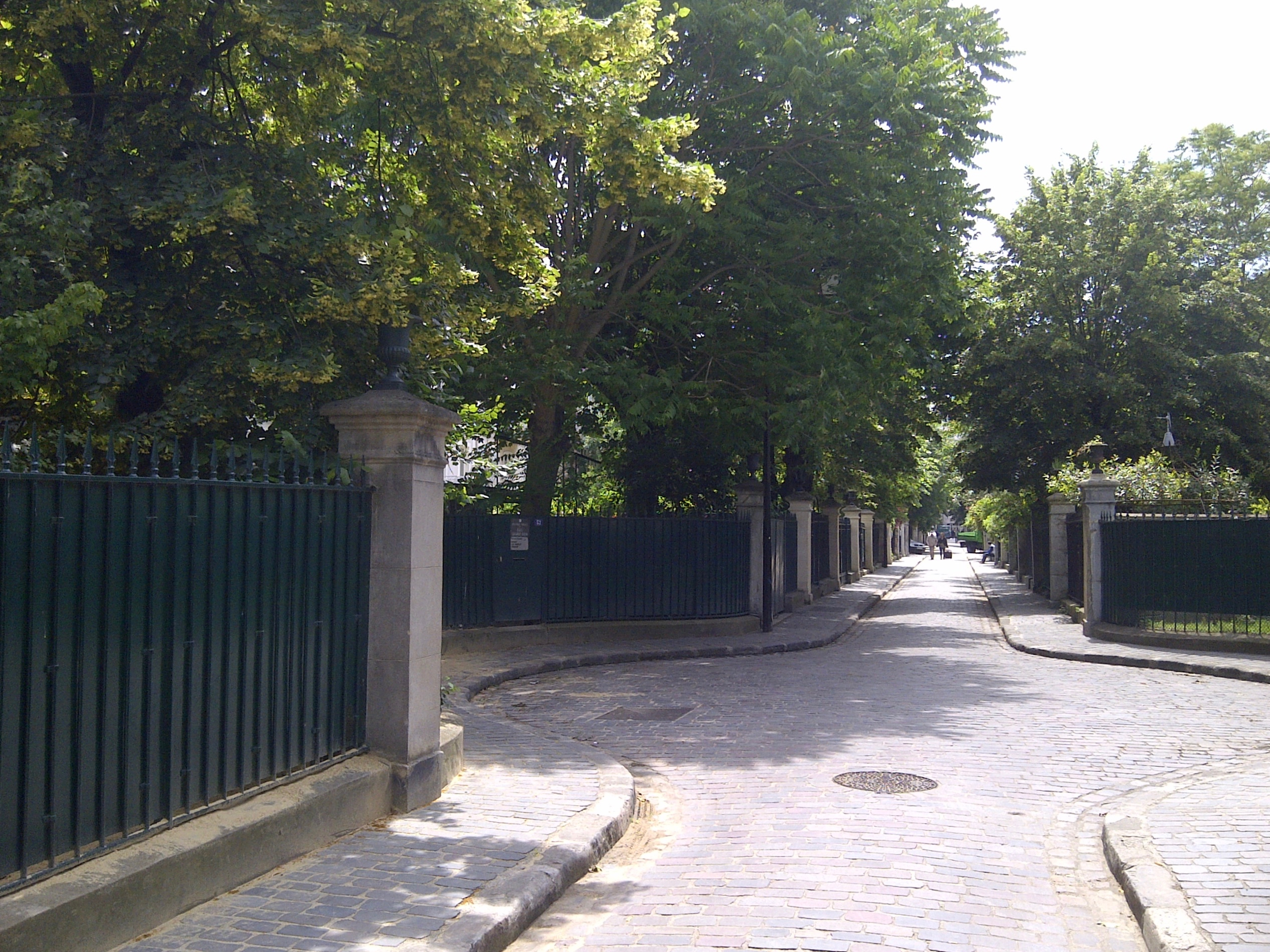 Cité des Fleurs in Paris' 17th district